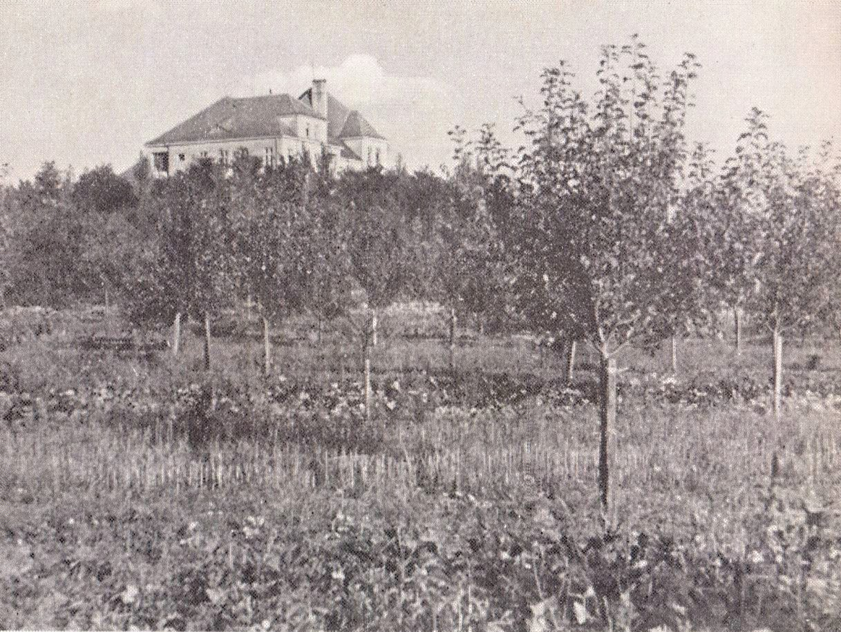 Child's Sanatorium in Busko-Zdrój "Górka", ca1926